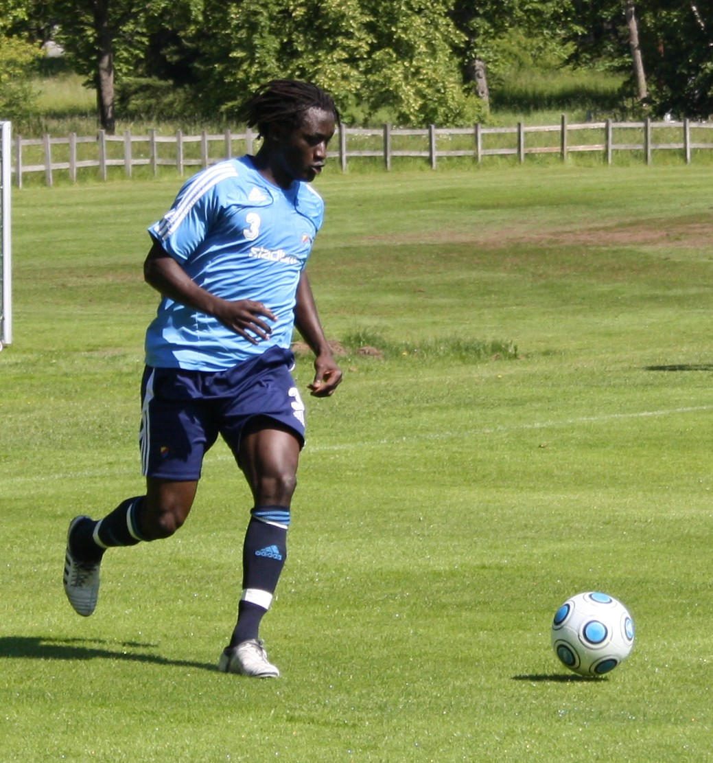 Football player Yosif Ayuba.